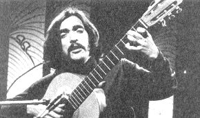 Angel Parra (born 1943) This image (or all images in this category/page) is very small, unfixably too light/dark, or may not adequately illustrate the subject of the picture. If a higher-quality image is available please consider replacing this one; otherwise, a replacement under a free license should be found or provided. Please see Category:Image cleanup templates for templates used to mark images that only need a clean-up. For more help, see Commons:Media for cleanup#Low quality pictures.